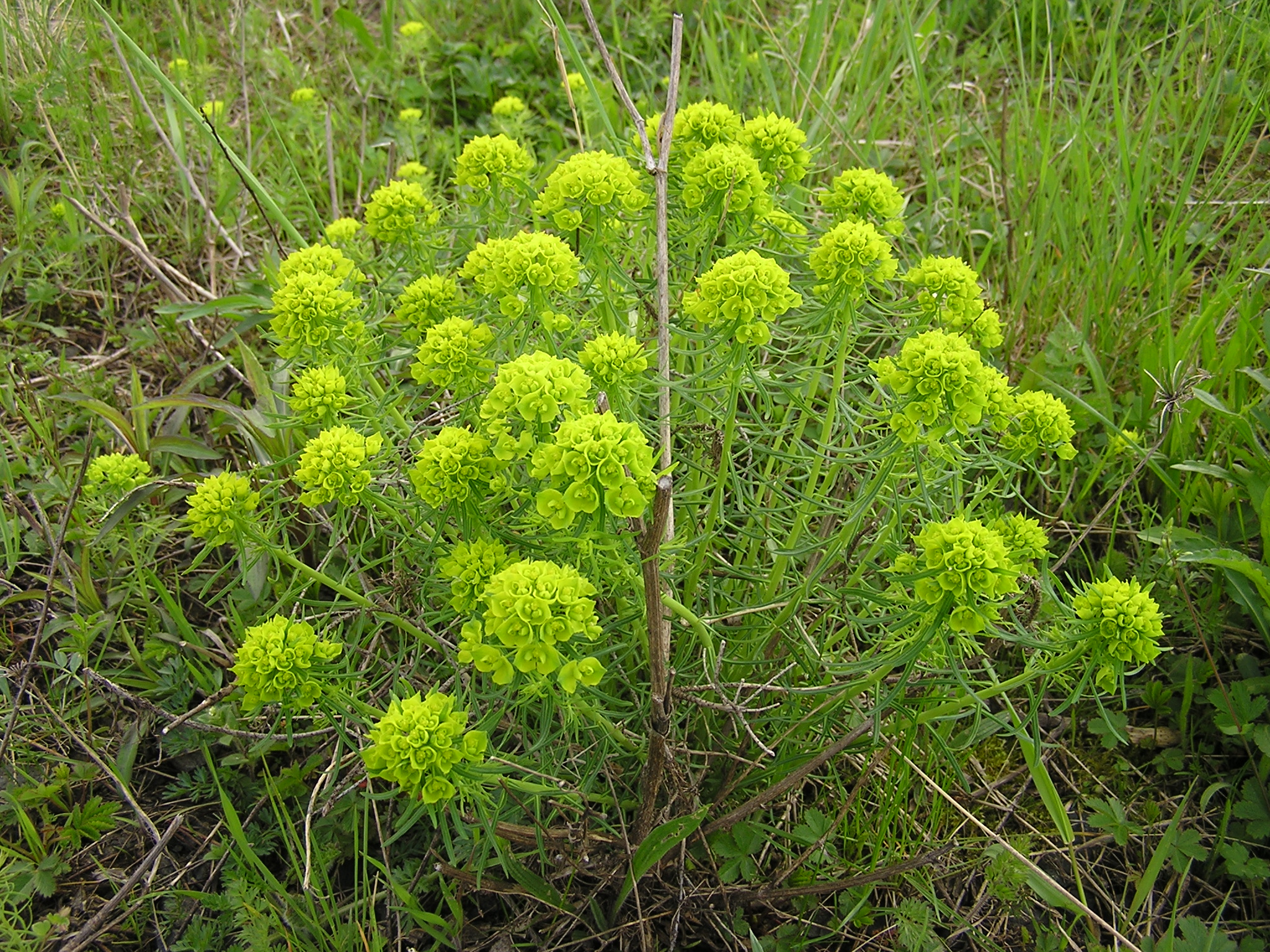 Cypress Spurge